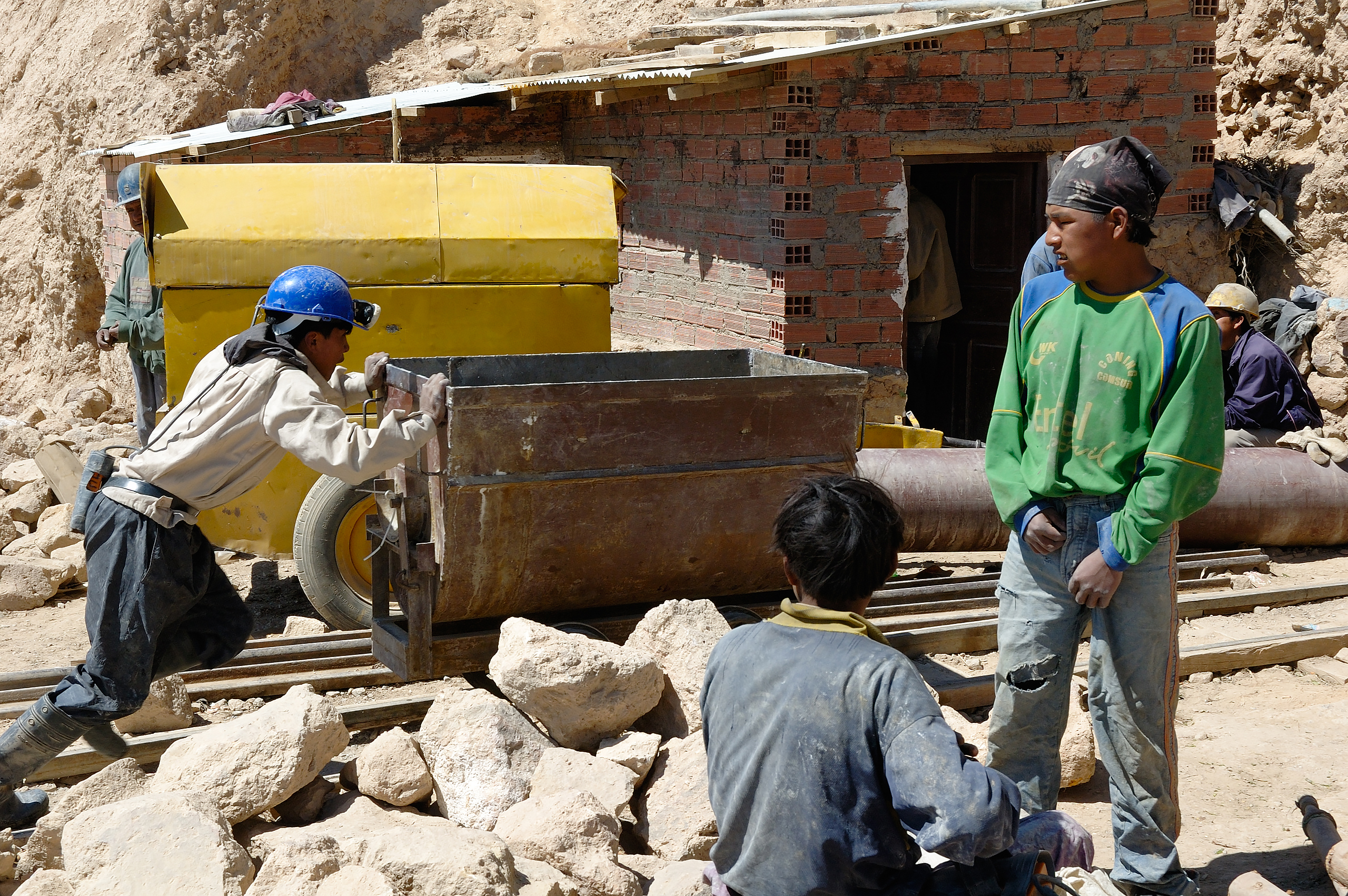 Miners at work on the flank of the "Cerro Rico", Potosi, Bolivia.